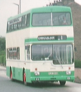 West Yorkshire PTE bus, a Scania Metropolitan double-decker with Metro Cammell bodywork, pictured in south Bradford, West Yorkshire.